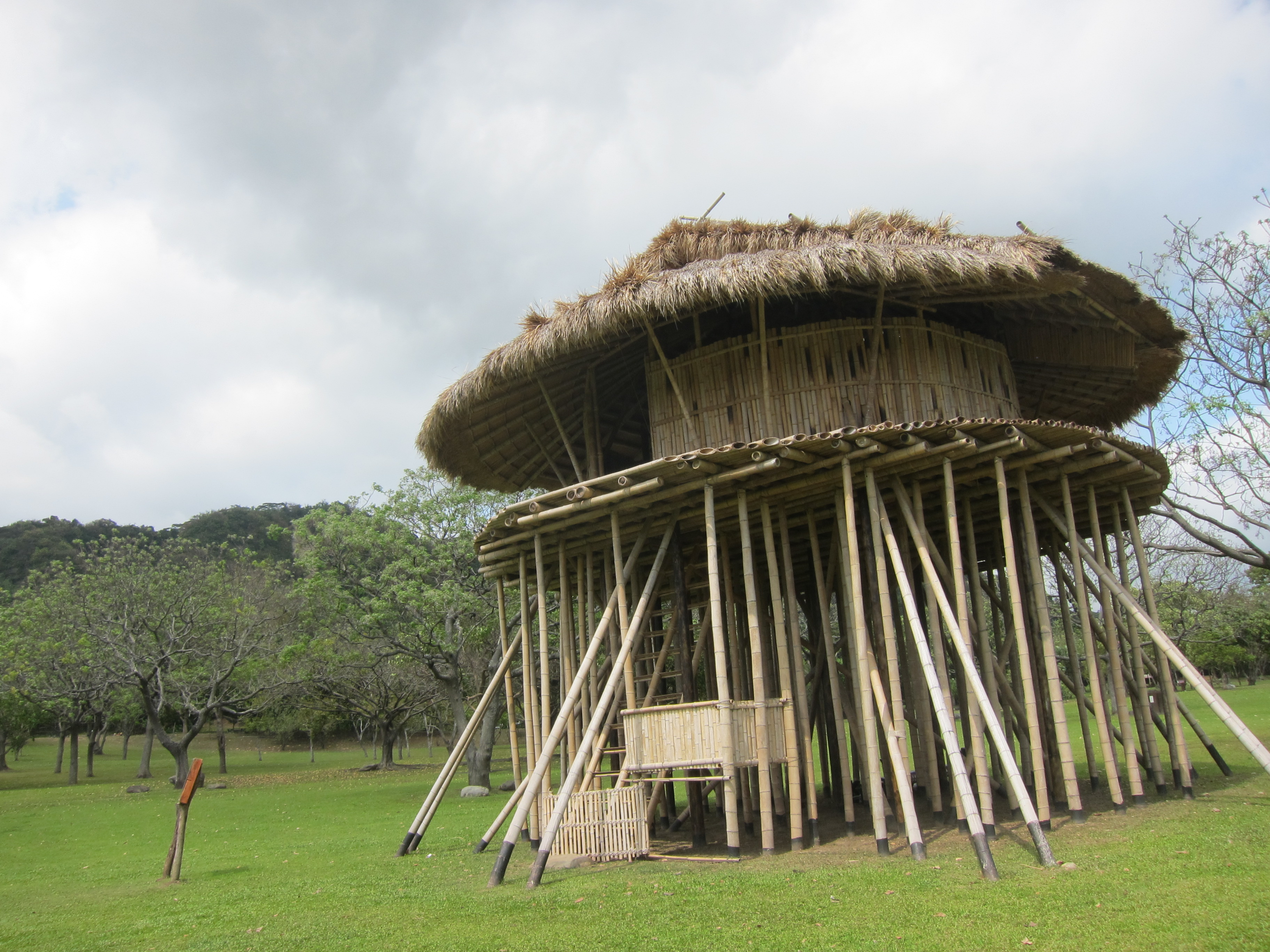 Tra Ku Ban, the place where the teenagers of Peinan between the ages of 12-18 receives the tribal education.中文（台灣）: 卑南族少年會所，是12-18歲之卑南族少年接受部落教育的地方